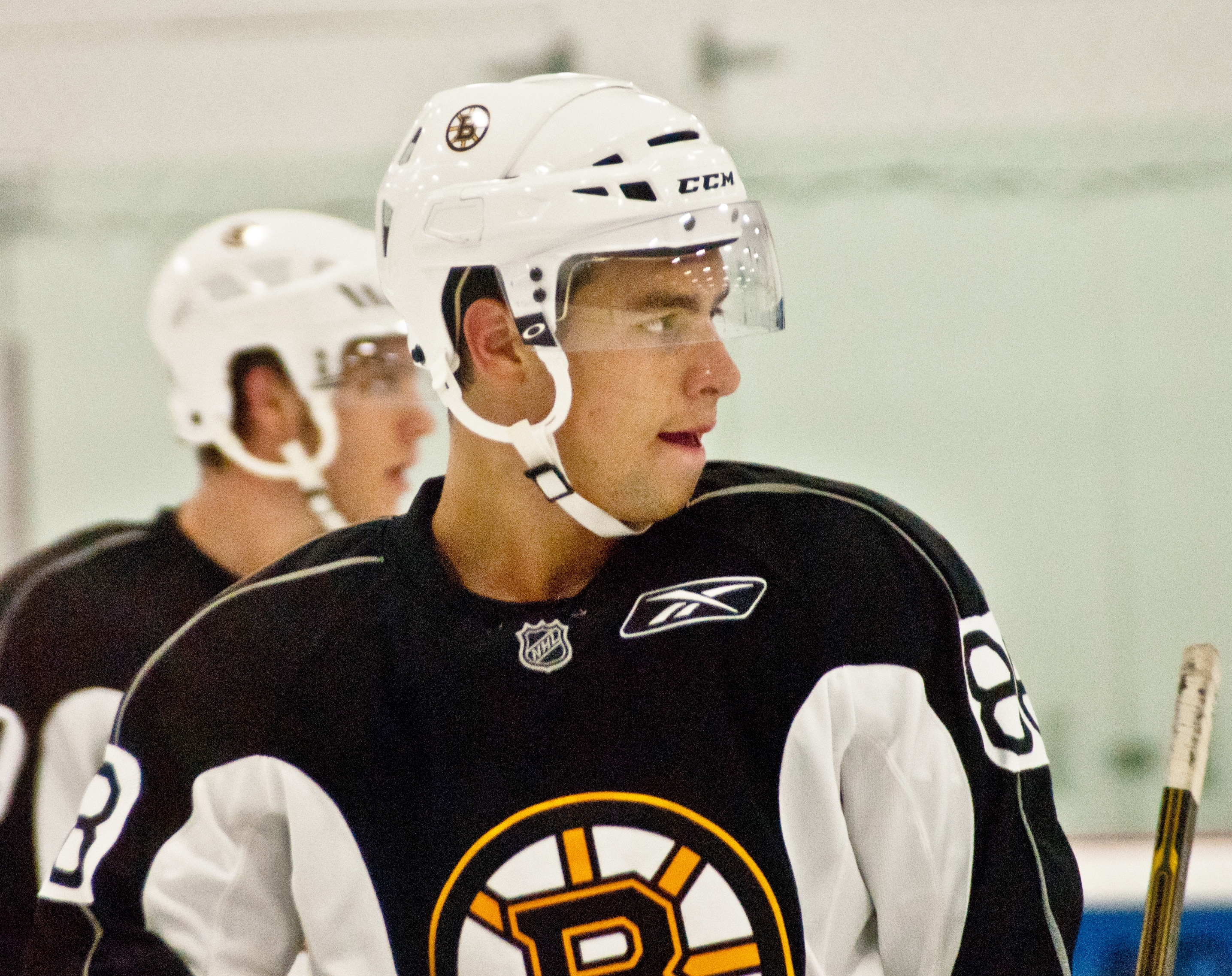 Bruins Dev Camp-6863.jpg Boston Bruins 2011 Development Camp - Day 3 National Hockey League (NHL) Photo taken by Sarah Connors at Wilmington, Massachusetts on July 9, 2011 using a Nikon D200. This photo also appears in sarah_connors' Flickr set: Bruins 2011 Development Camp - Day 3 (Set: 109)